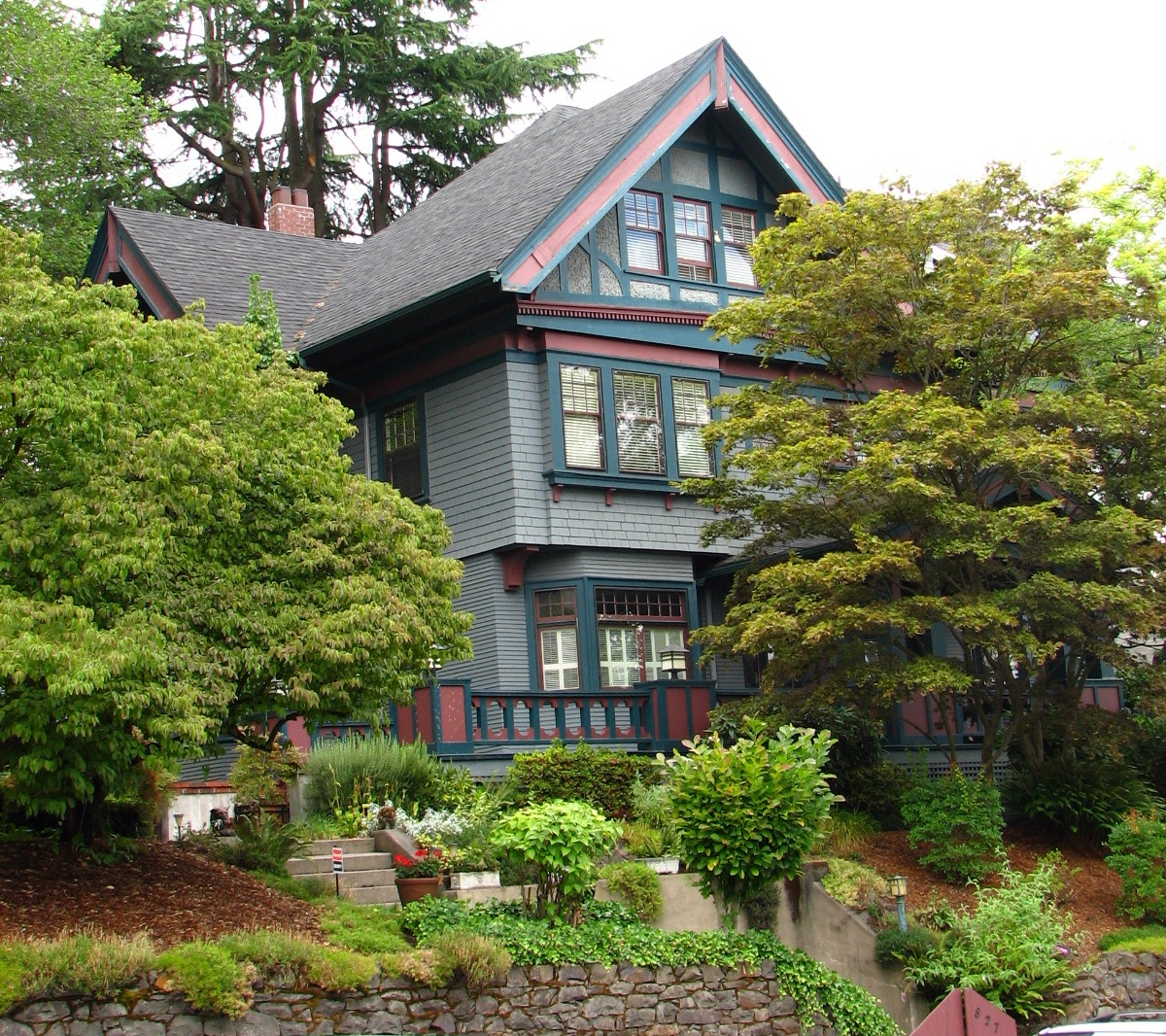 The historic Cardwell–Holman House (built 1914), located at 827 Northwest 25th Avenue in Portland, Oregon, United States, is listed on the US National Register of Historic Places.